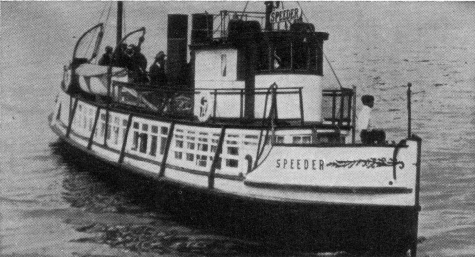 Motor vessel Speeder, ex Bainbridge, circa 1921.